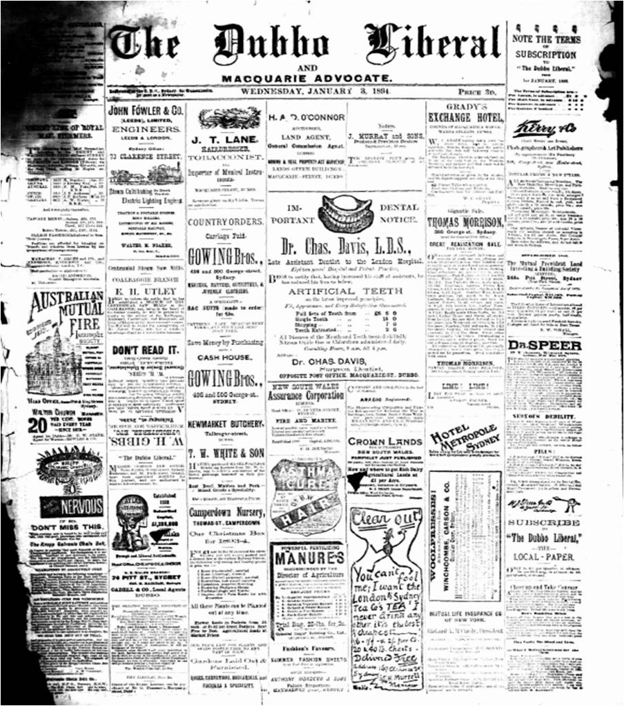 Coverpage of a historic newspaper from New South Wales, Australia.